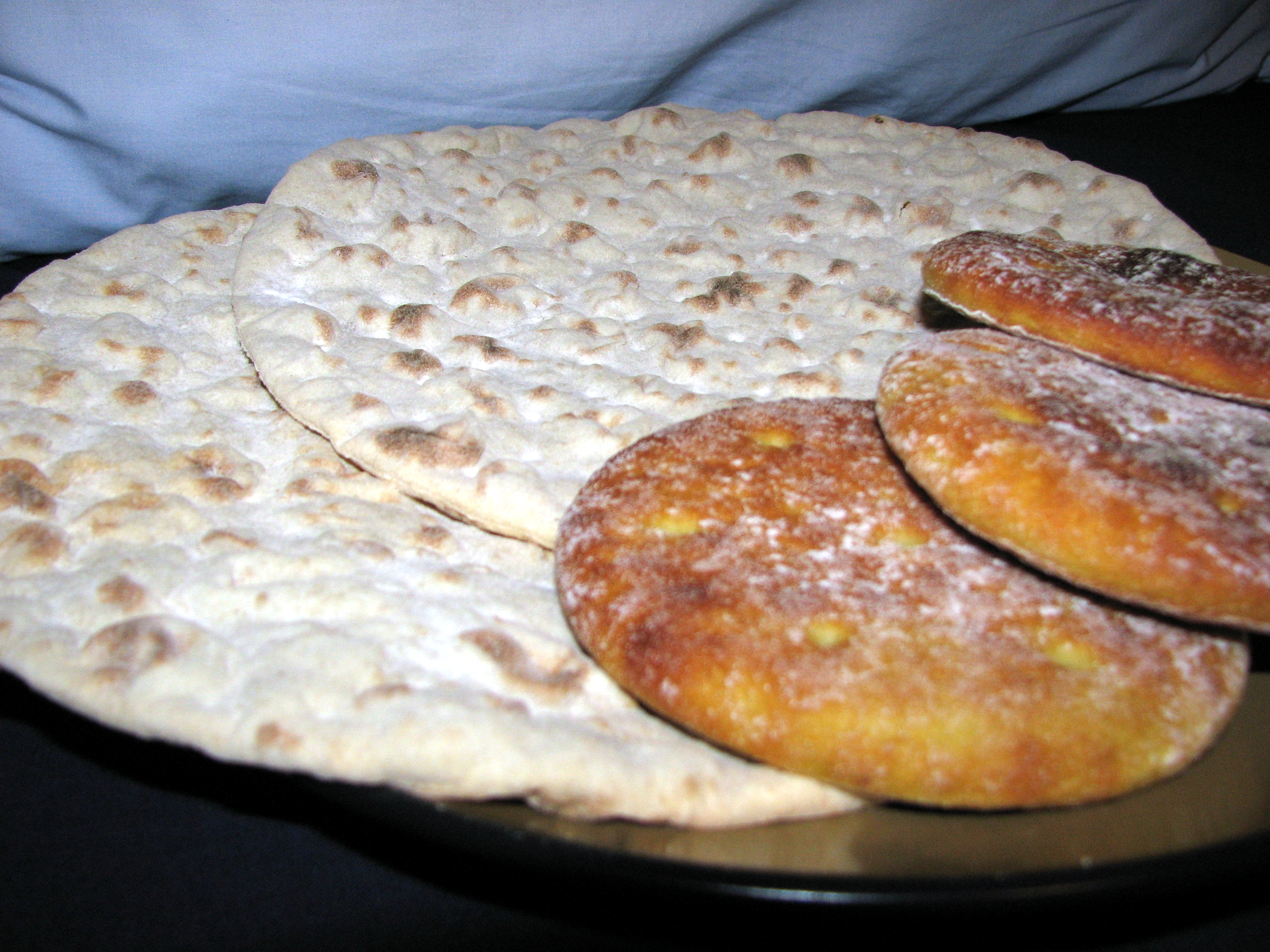 A couple of very flat rye rieska and 3 thicker potato rieska.